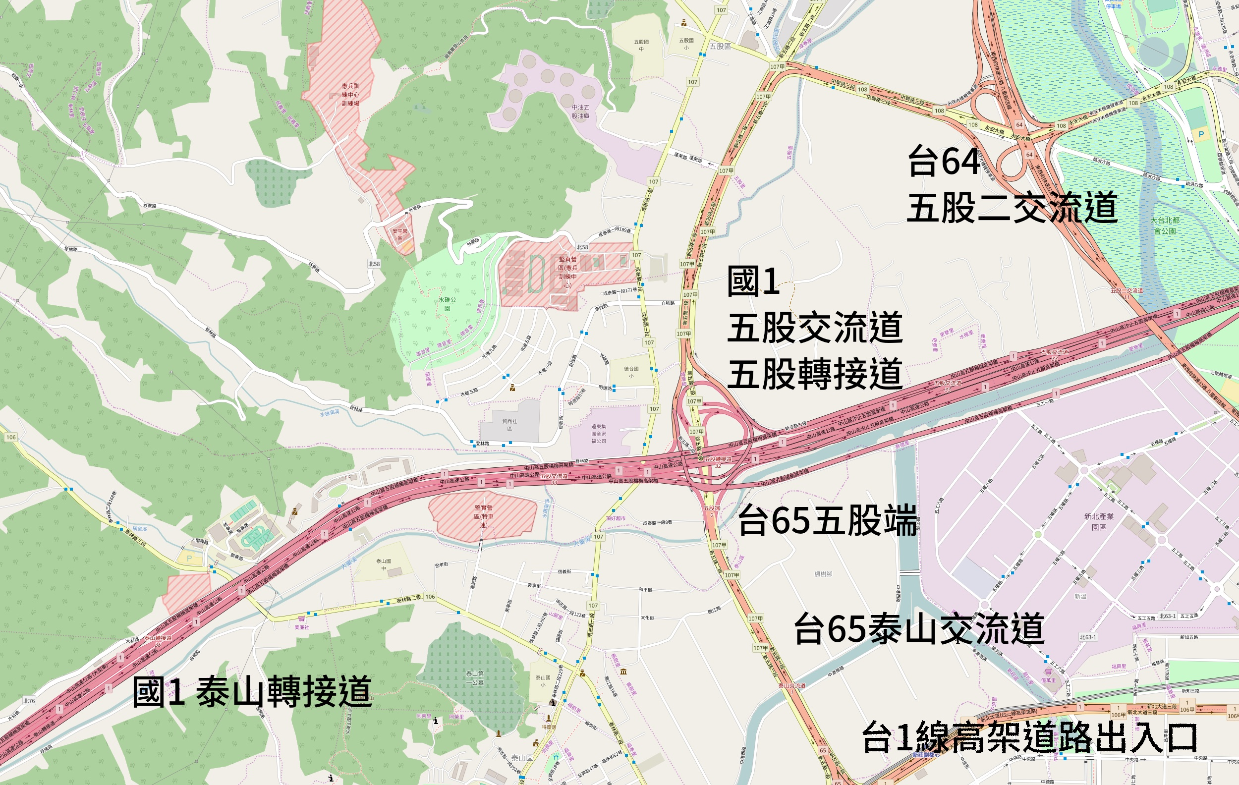 中文（台灣）: 五股交流道與周邊交流道示意圖。 This map may be incomplete, and may contain errors. Don't rely solely on it for navigation.